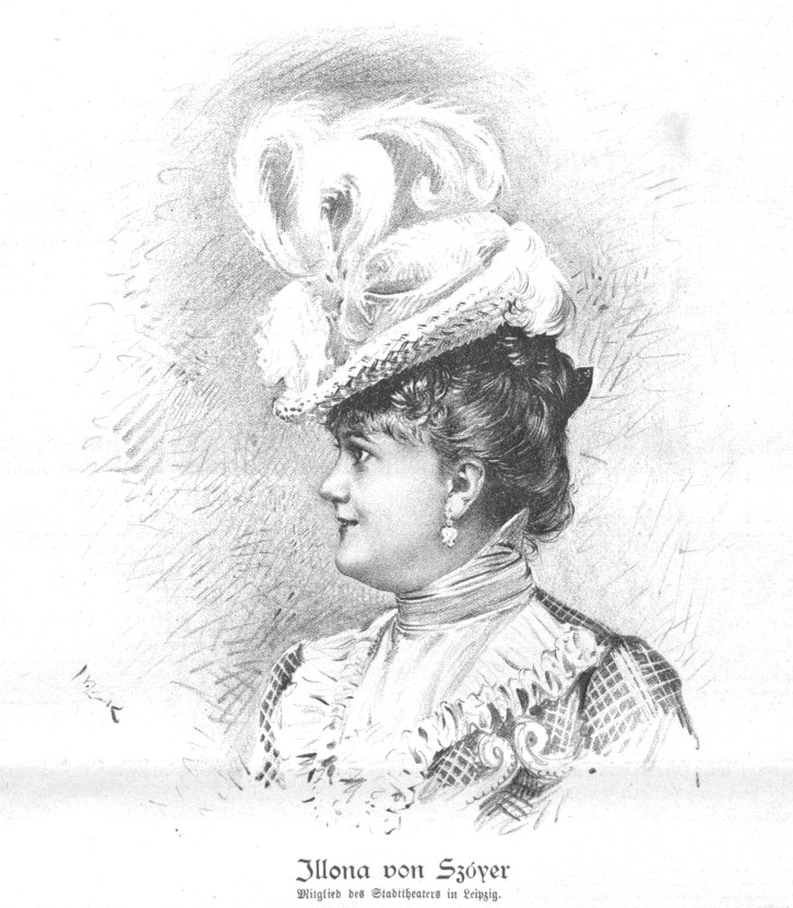 Portrait of Ilona von Szoyer (1880-1956), Hungarian opera singer active also in Germany.